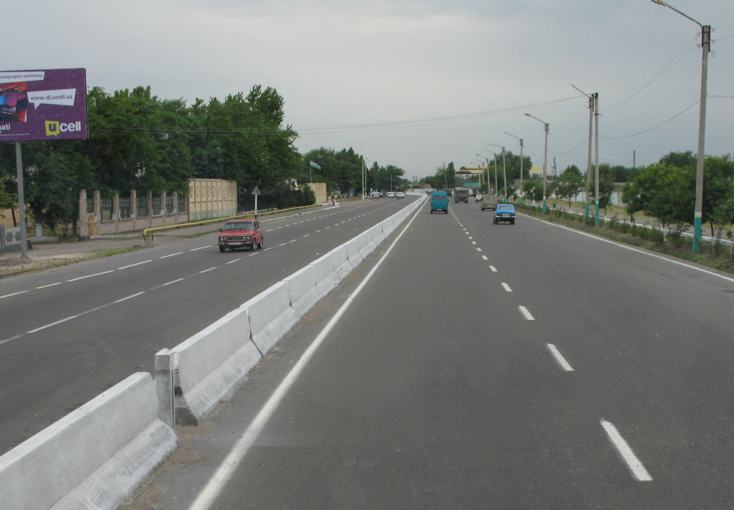 M34 in Sirdaryo in Sirdaryo Province, Uzbekistan